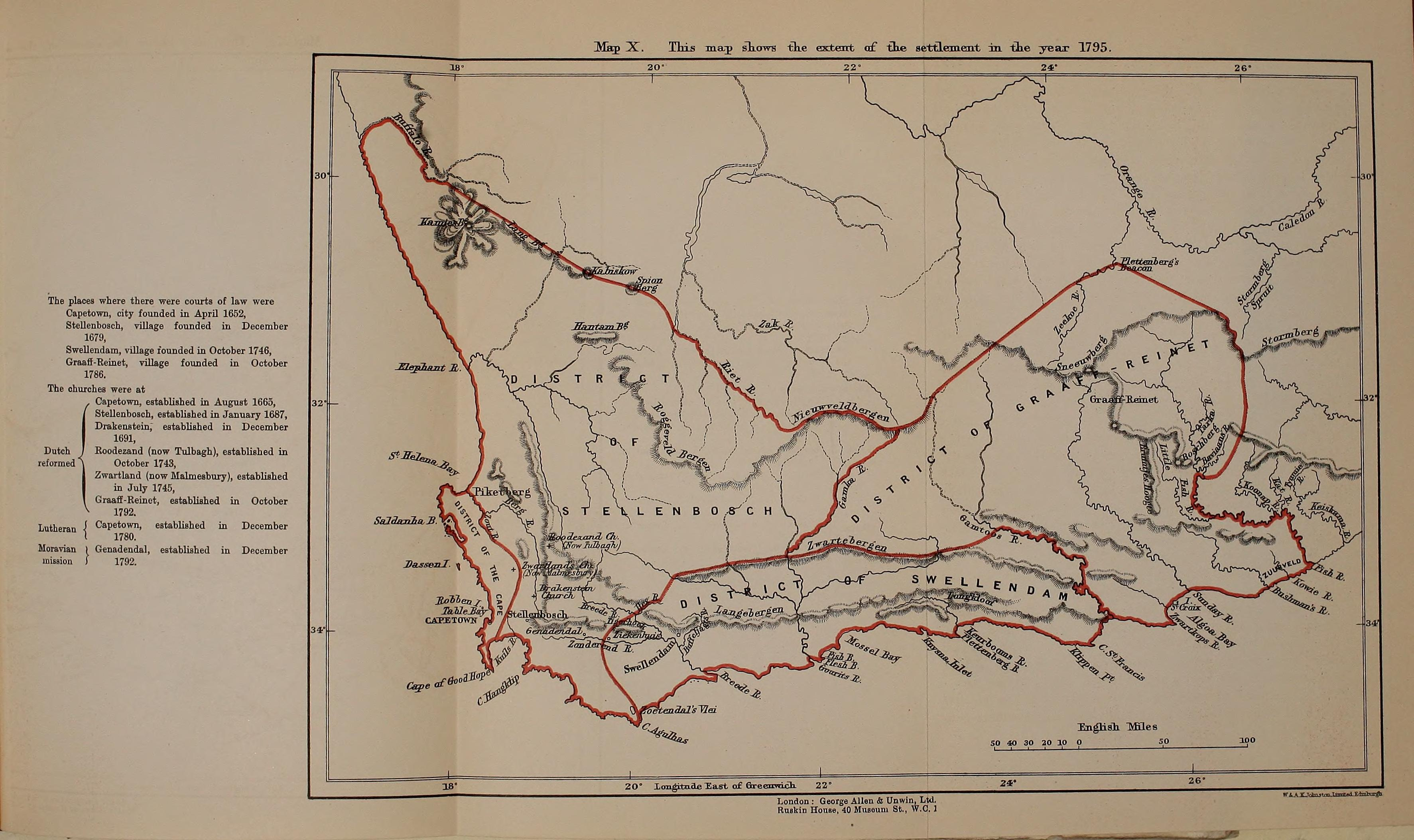 Map of the Dutch Cape Colony in 1795, from page 374 of "History of Africa south of the Zambesi - from the settlement of the Portuguese at Sofala in September 1505 to the conquest of the Cape Colony by the British in September 1795" (1916)